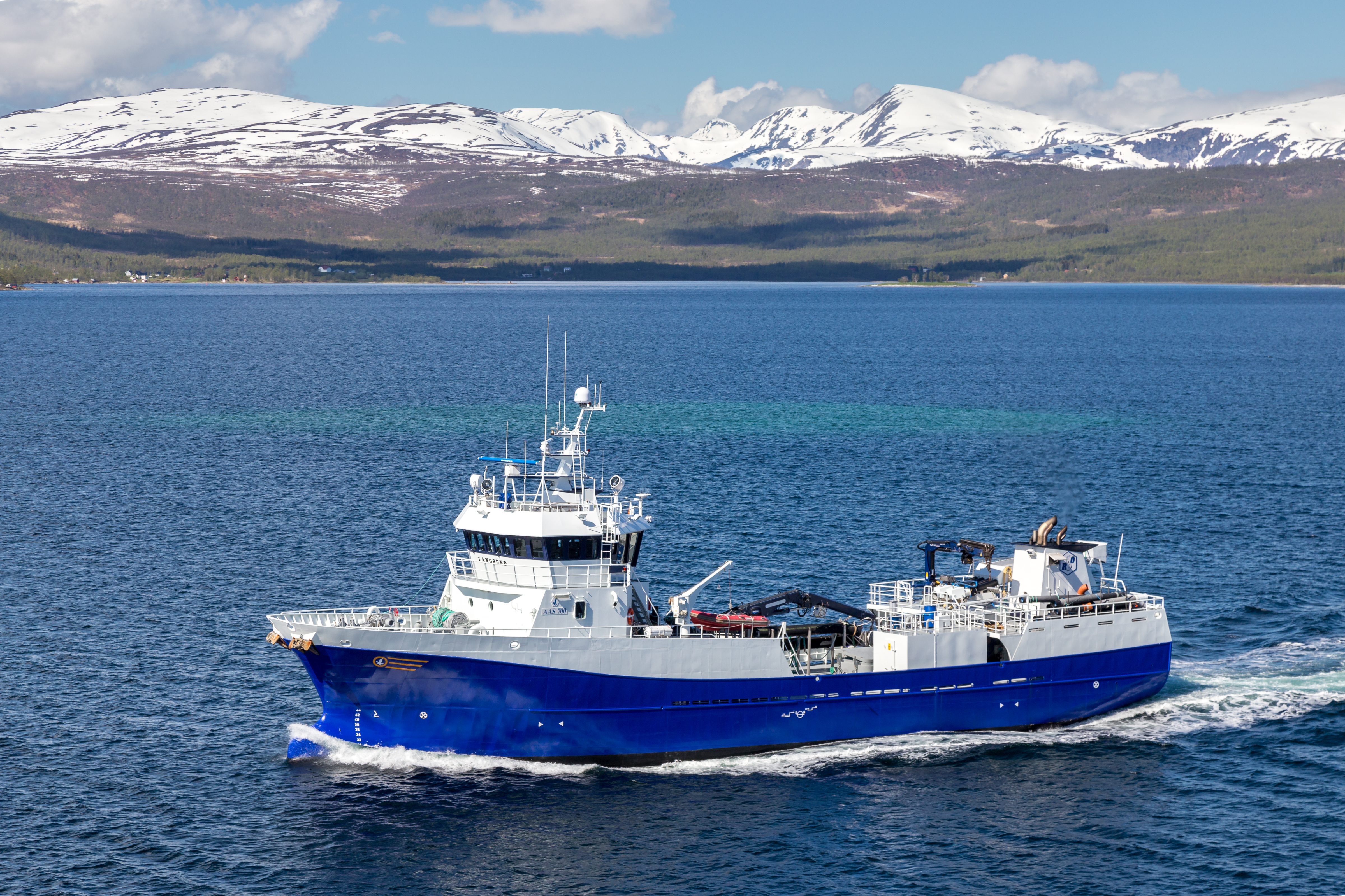 Live fish carrier "Langsund" near Senja, Troms og Finnmark, Norway